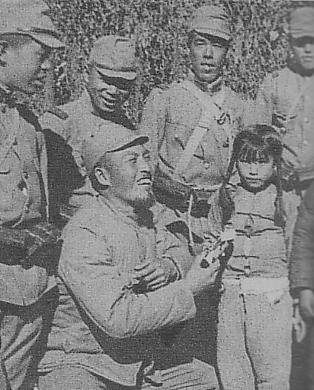 Japanese soldier who gives his caramel to Chinese child